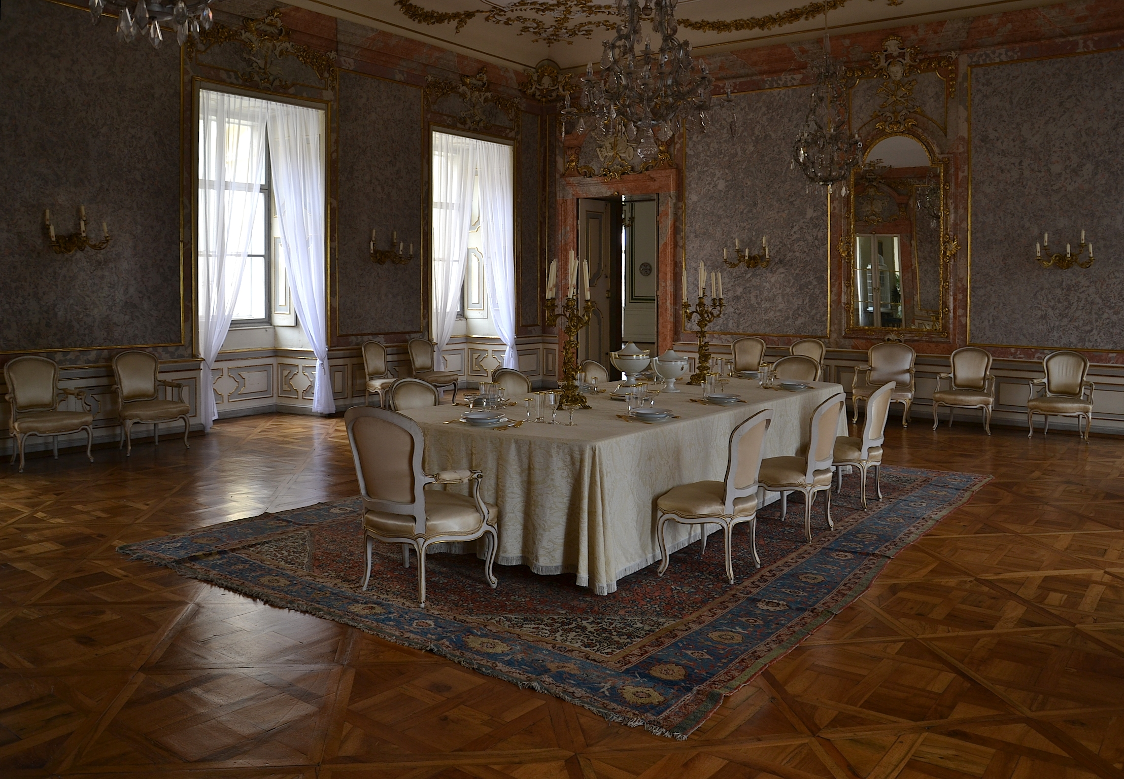 Castle Valtice (Feldsberg) - dining room